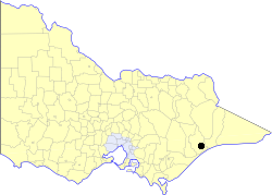 Location of the City of Bairnsdale within Victoria.